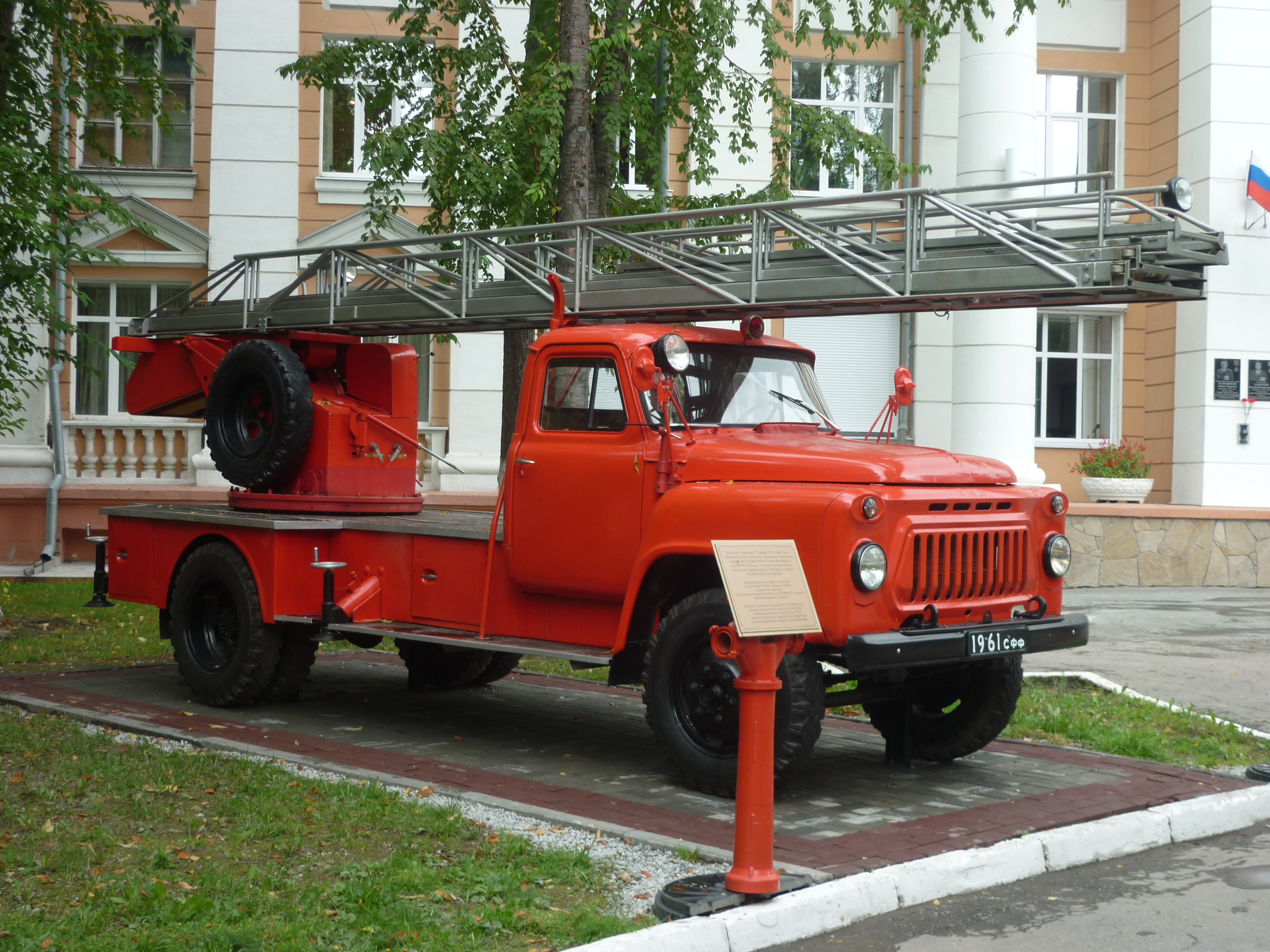 Пожарная лестница АЛ-18(52-01)-Л2 на шасси ГАЗ-52-01 около Института пожарной службы МЧС в Екатеринбурге